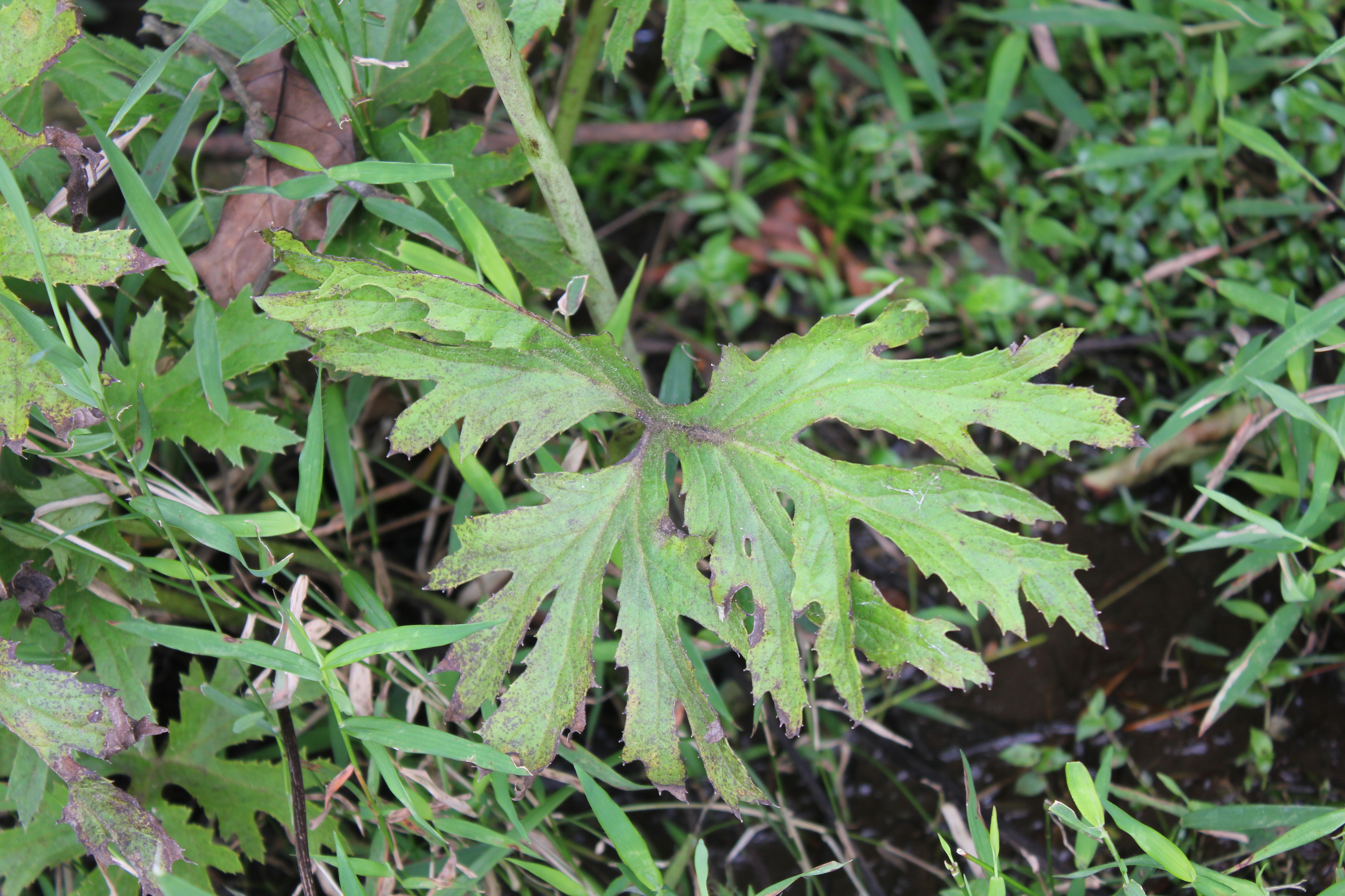 Leaf of Ligularia japonica at Mt. Huangzui Ecological Protected Area, Yangmingshan National Park, Taipei, Taiwan.